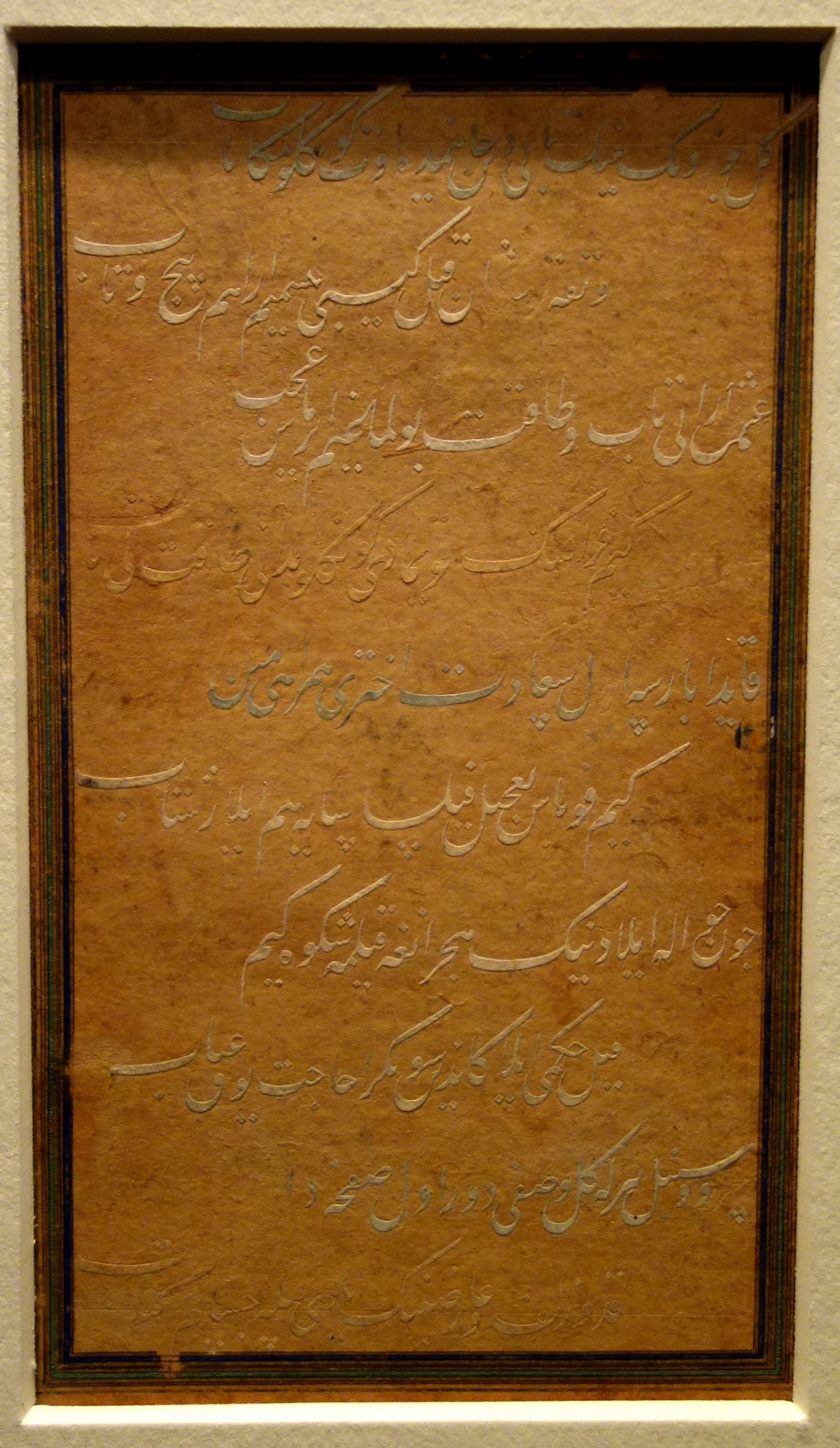 Exhibit in the Cincinnati Art Museum, Cincinnati, Ohio, USA. This artwork is in the public domain because the artist died more than 70 years ago.